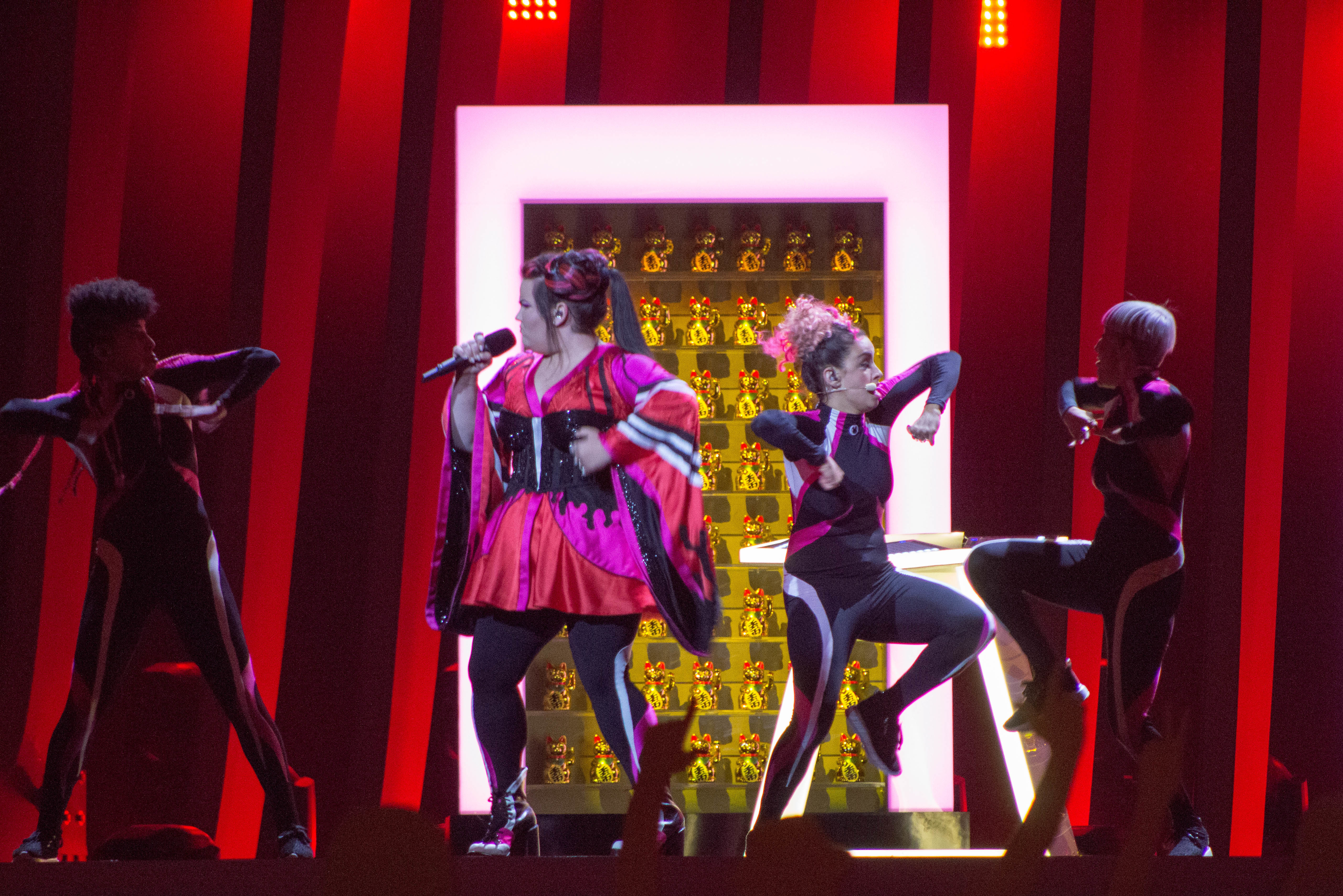 Netta representing Israel with the song "Toy" during a rehearsal before the first semi final of the Eurovision Song Contest 2018 in Lisbon.